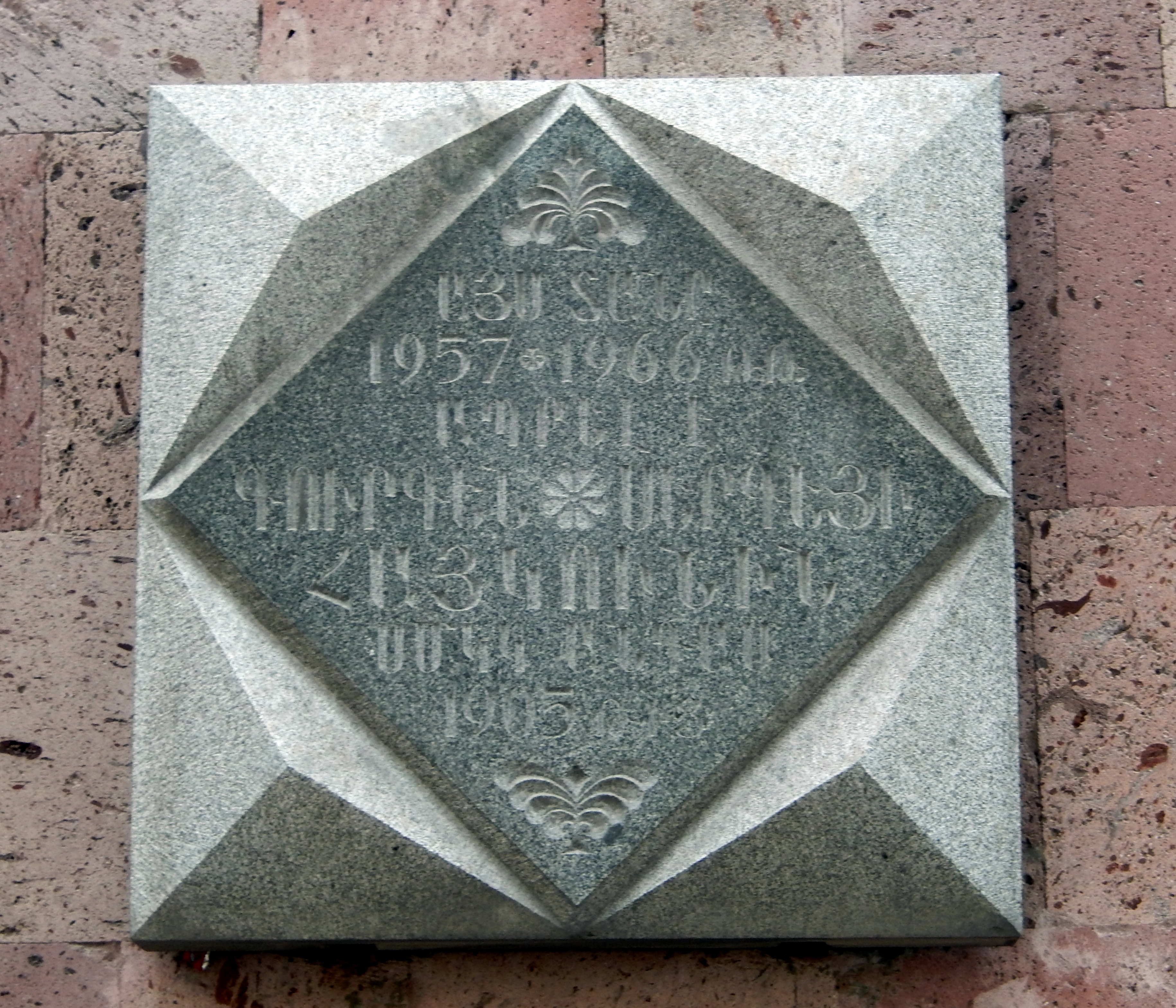 Gourgen Haykouni's plaque in Yerevan